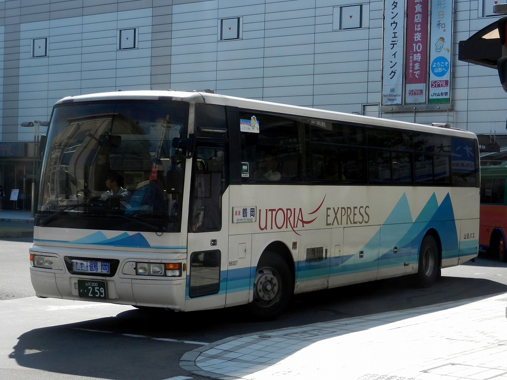 Yamako bus Nissan Diesel Space Arrow (KC-RA531RBN) for highwaybus "Yamagata-Tsuruoka"